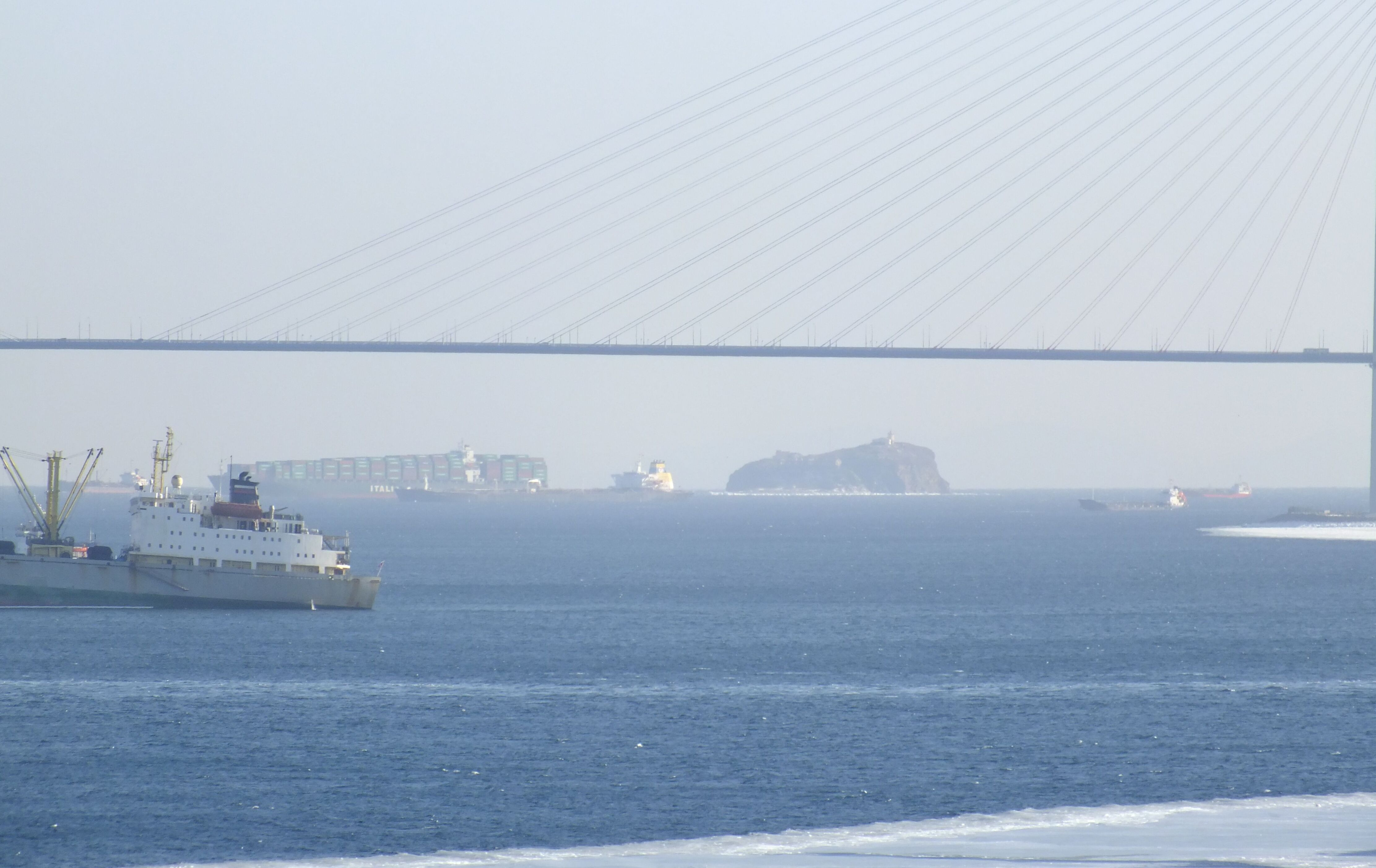 Eastern Bosphorus